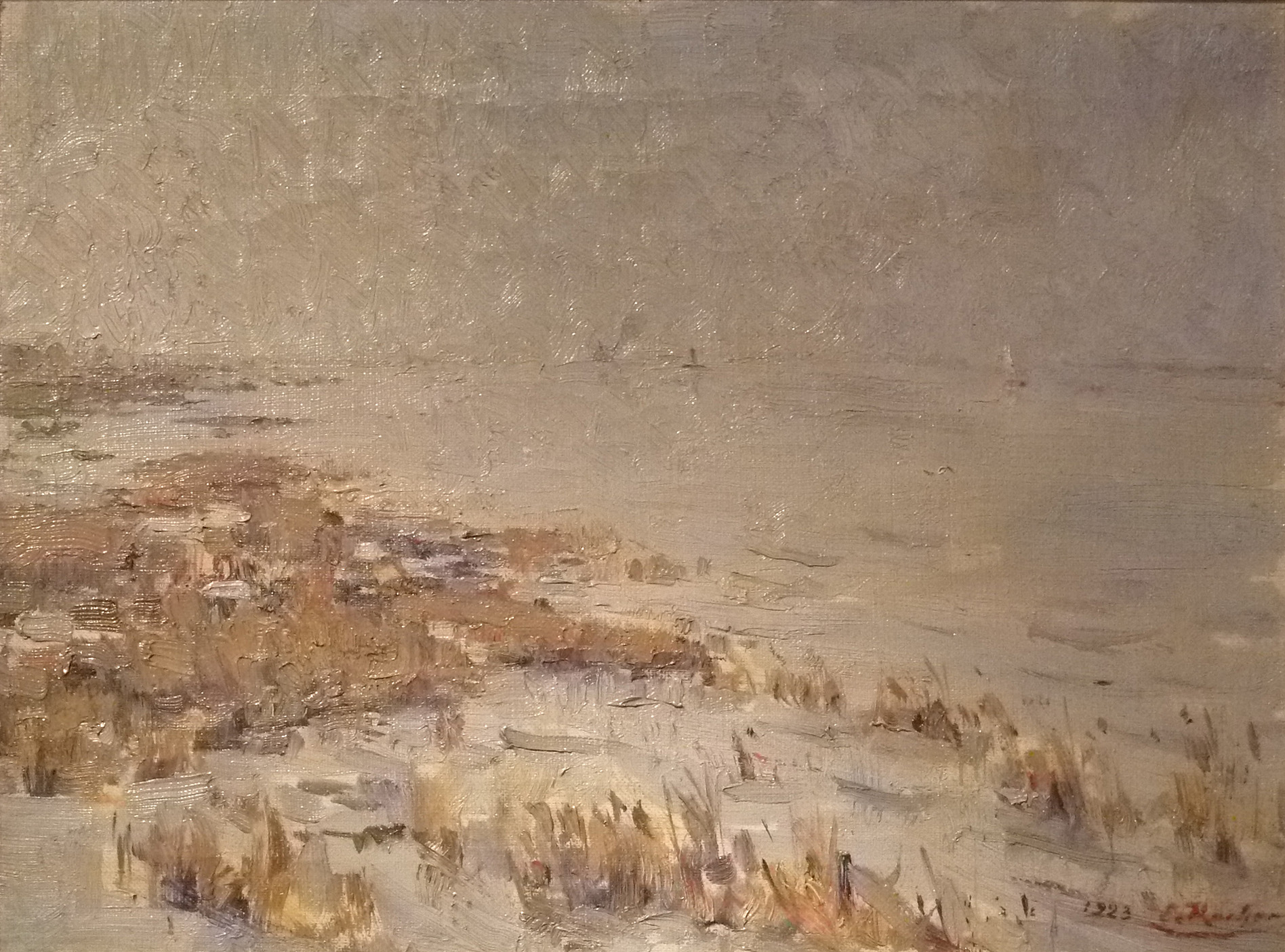 "Schelde estuary" (1923), oil on canvas (33.5 x 45 cm) by the Belgian painter Ernest Rocher (1872-1938); private collection